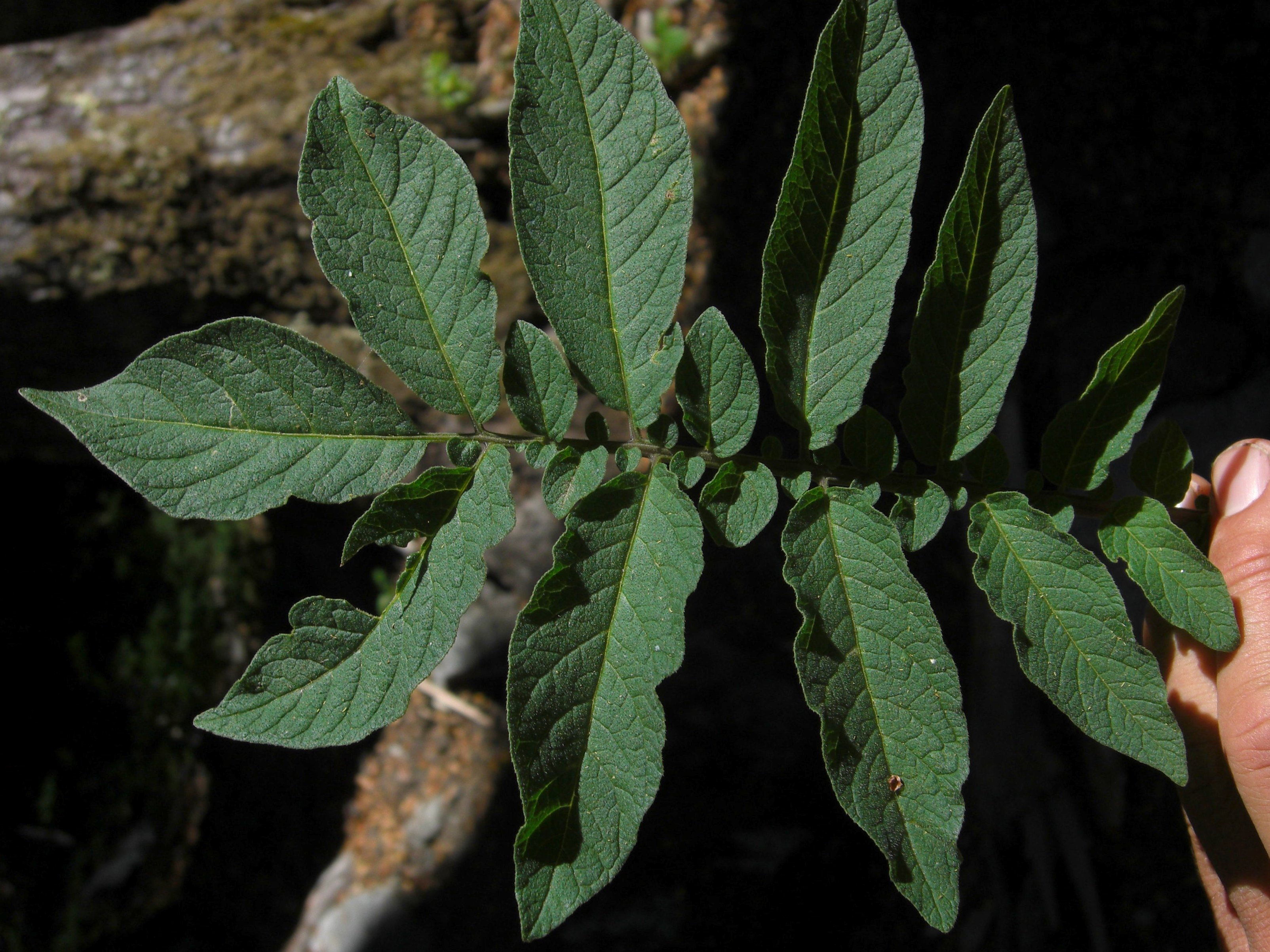 Solanum etuberosa 20081208.23 Parque Nacional Huerquehue, Chile This is apparently closely related to the ancestor of the cultivated potato, S. tuberosa(?) This particular specimen was almost a small shrub. The "interrupted pinnate" leaves are quite distinctive.